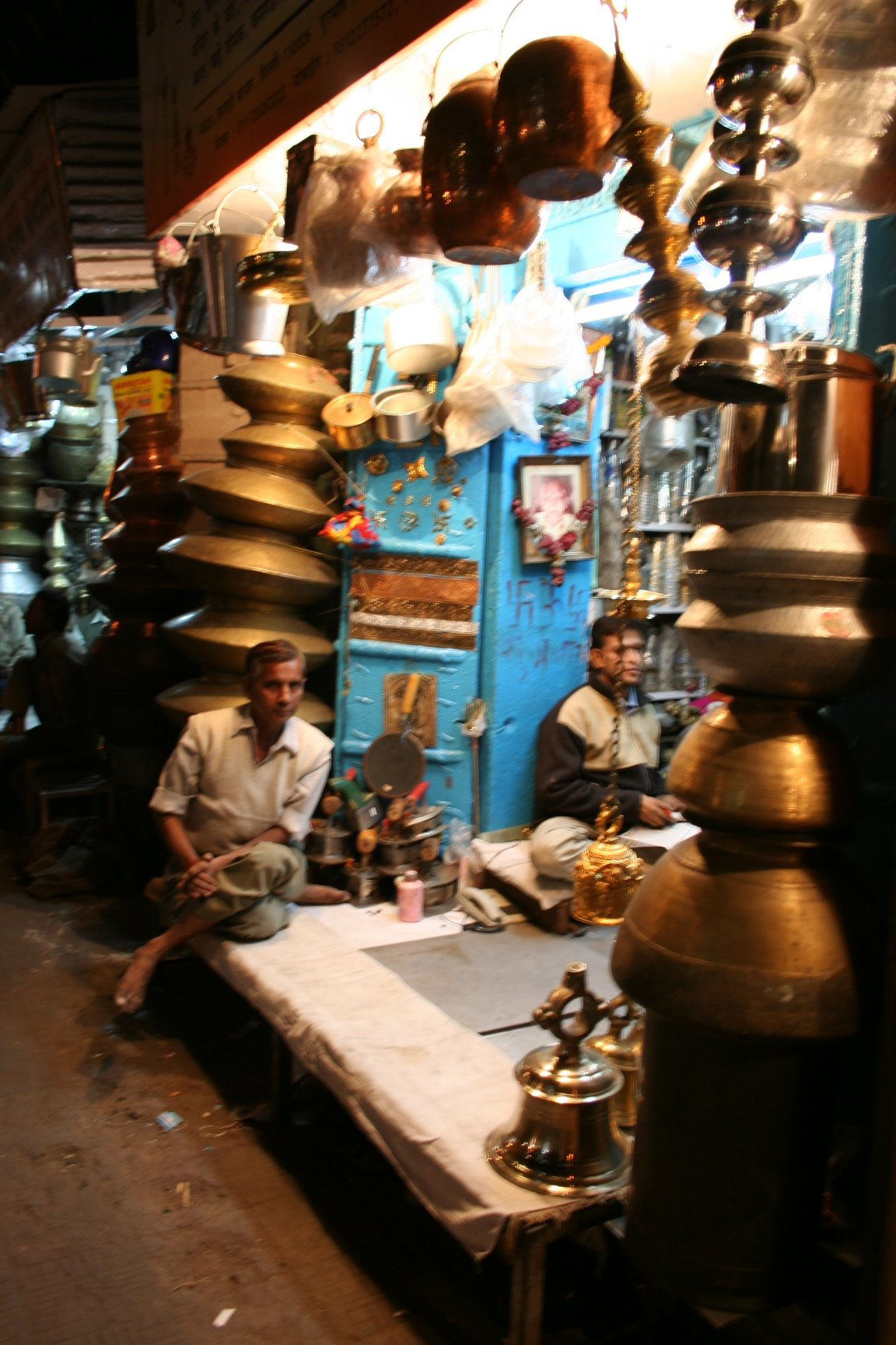 Chowri Bazar, Brass Shop